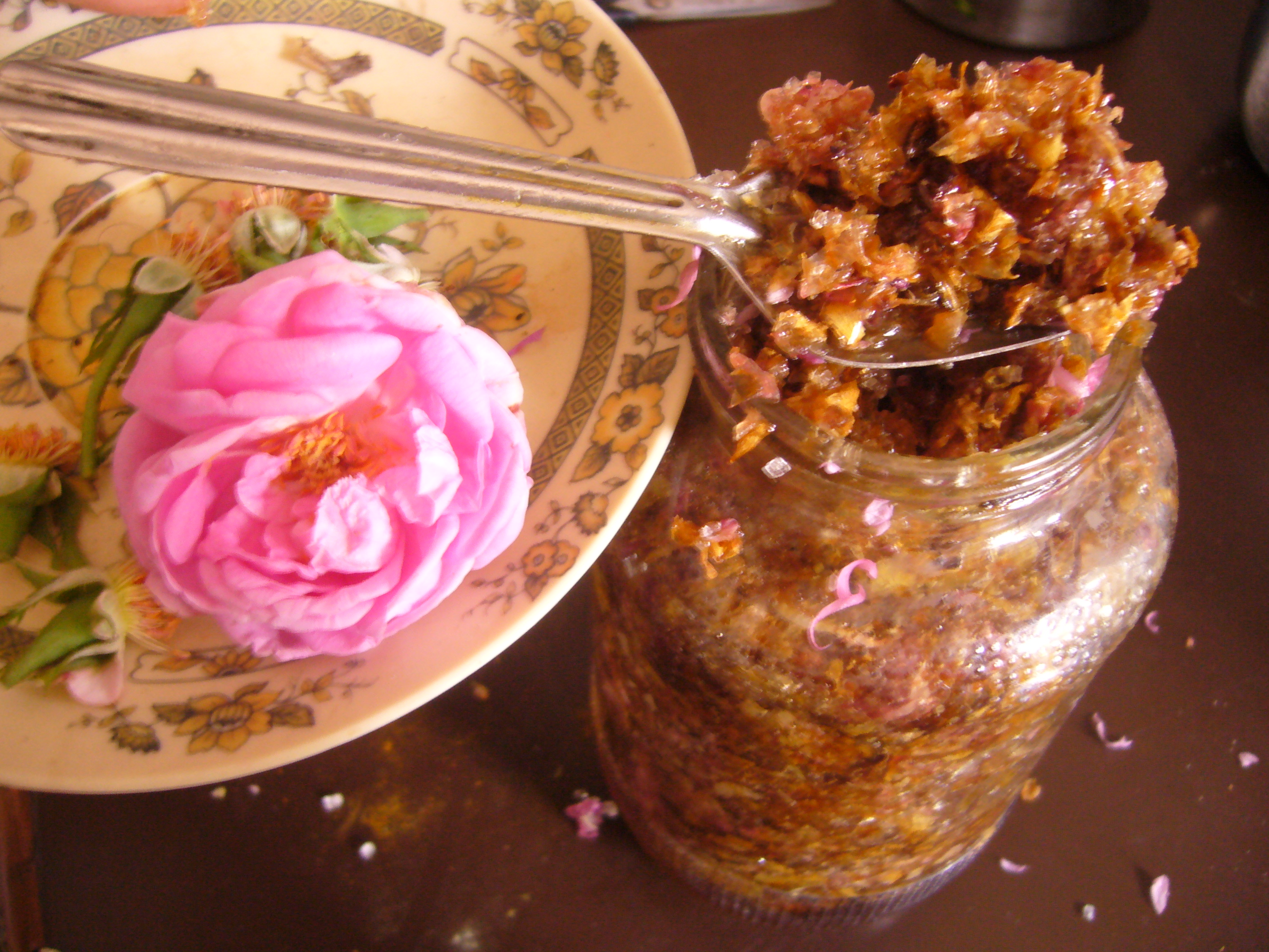 Home-made Gulkhand and an example of the rose from which it came. Made in Pune, India.